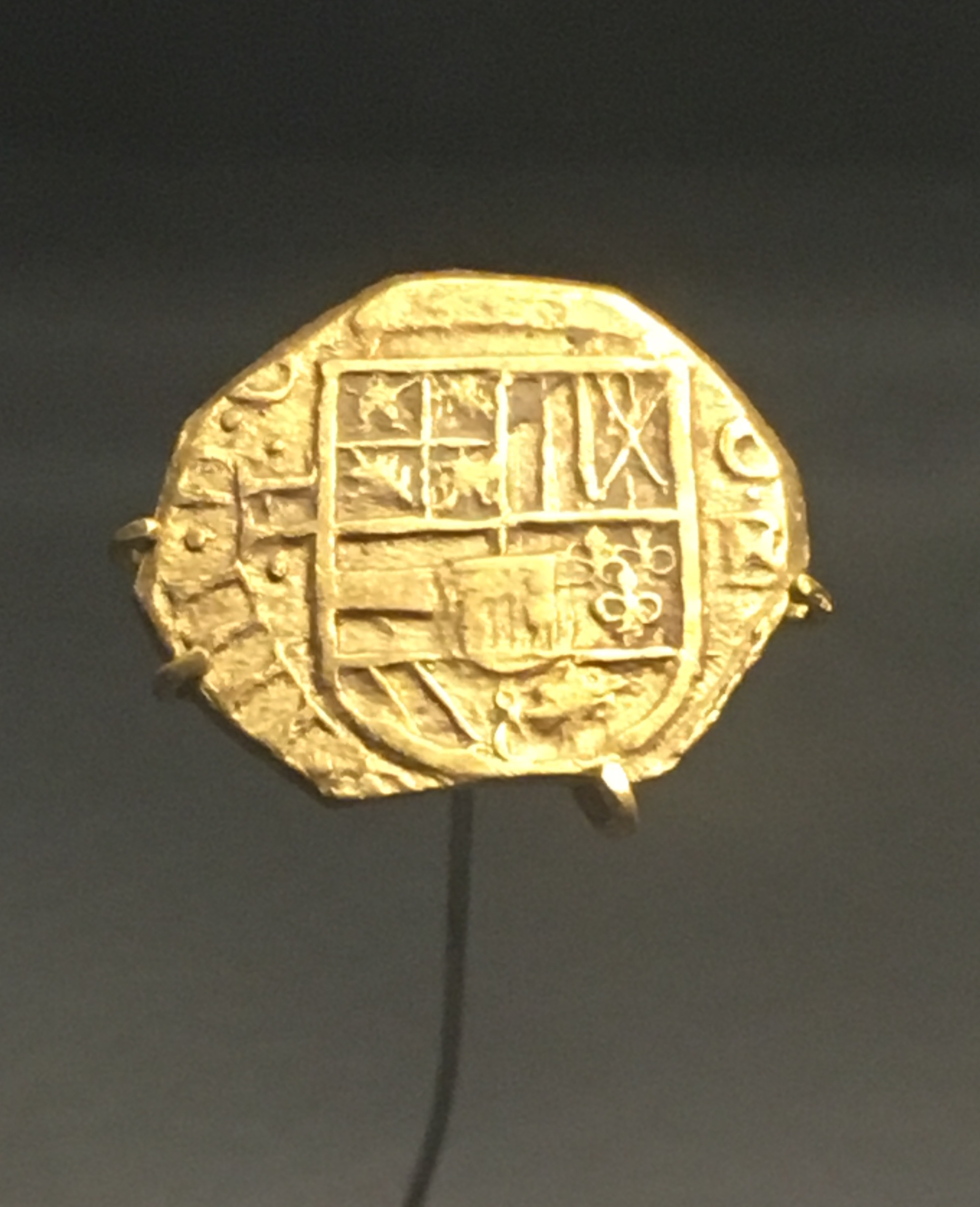 A 2 escudos Felipe IV gold coin minted in 1630. At display at Bogotá's Casa de la Moneda